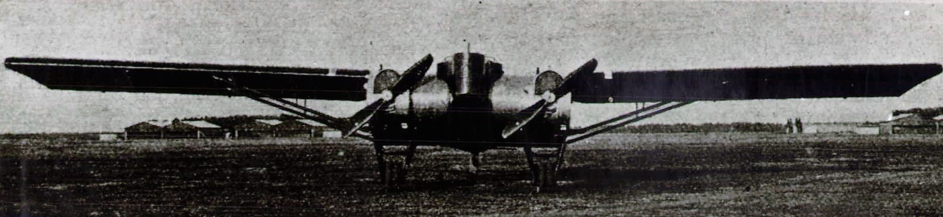 Dyle et Bacalan DB-10 photo from NACA Aircraft Circular No.27